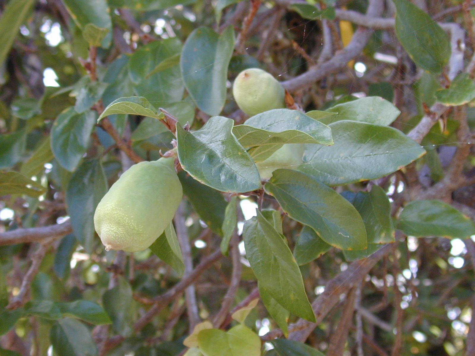 Ficus pumila (fruits and leaves). Location: Maui, Hui Noeau Makawao